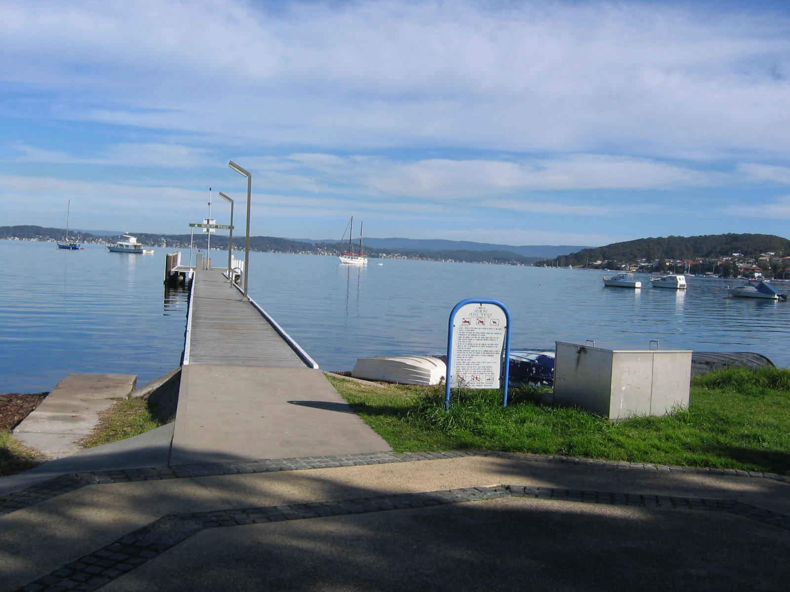 Belmont Wharf at Belmont, New South Wales, on Lake Macquarie.